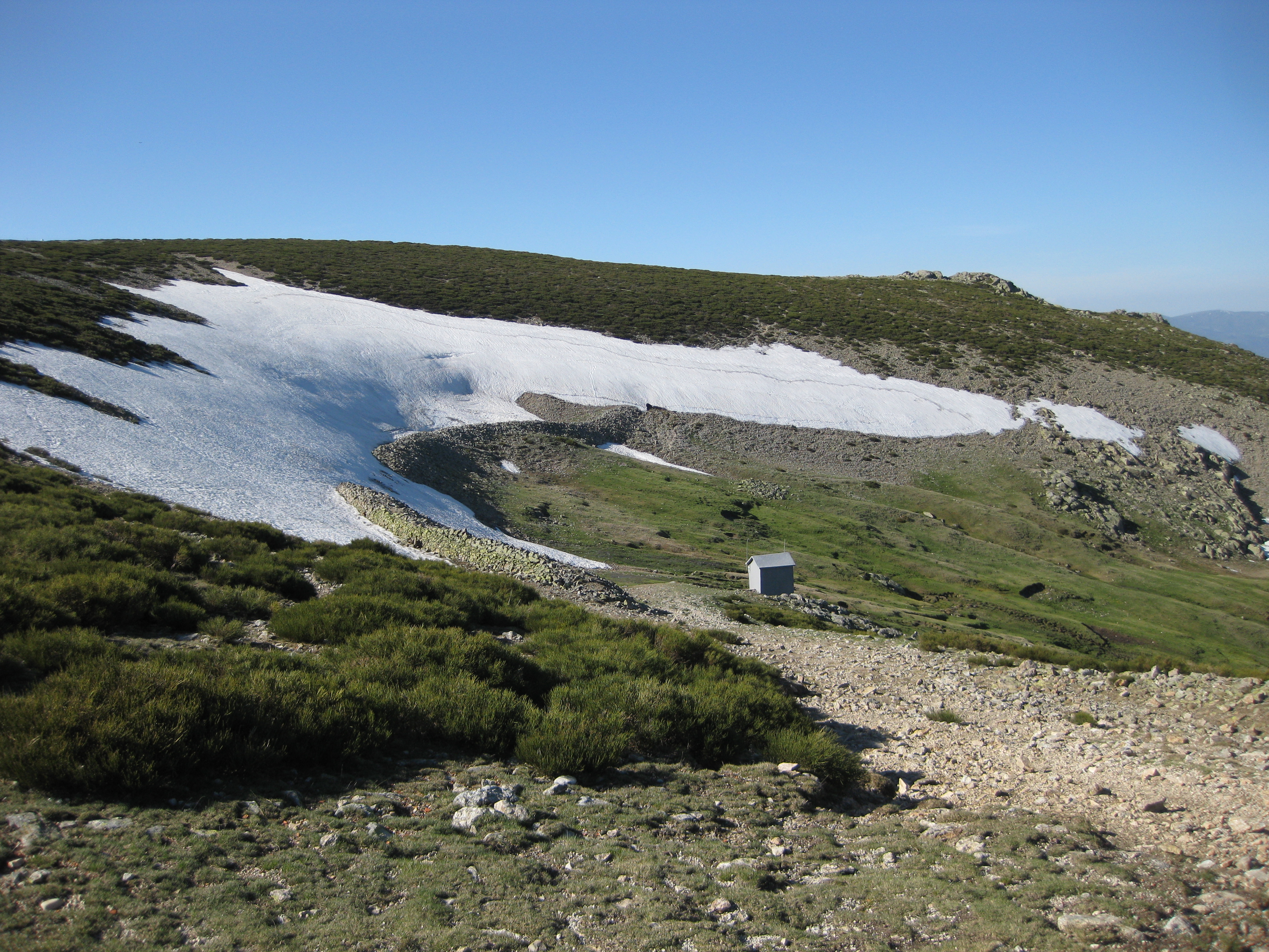 Ventisquero de la Condesa (biggest snowfield in Guadarrama Mountain Range and fountain of Manzarares River)